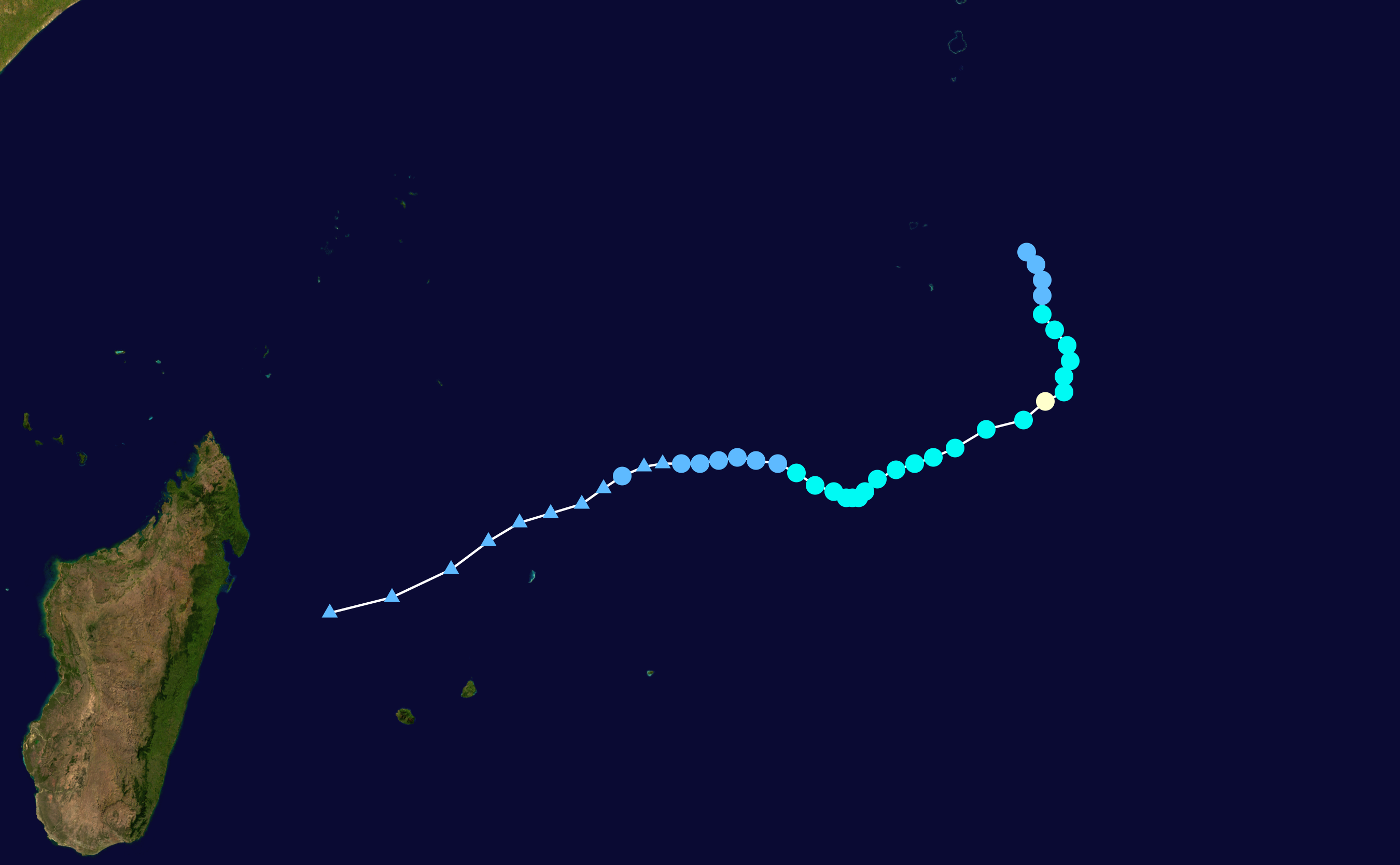 Track map of Severe Tropical Storm Bongwe of the 2007-08 South West Indian Ocean cyclone season. The points show the location of the storm at 6-hour intervals. The colour represents the storm's maximum sustained wind speeds as classified in the Saffir–Simpson scale (see below), and the shape of the data points represent the nature of the storm, according to the legend below. Saffir–Simpson scale Tropical depression≤38 mph≤62 km/h Category 3111–129 mph178–208 km/h Tropical storm39–73 mph63–118 km/h Category 4130–156 mph209–251 km/h Category 174–95 mph119–153 km/h Category 5≥157 mph≥252 km/h Category 296–110 mph154–177 km/h Unknown Storm type Tropical cyclone Subtropical cyclone Extratropical cyclone / Remnant low / Tropical disturbance / Monsoon depression